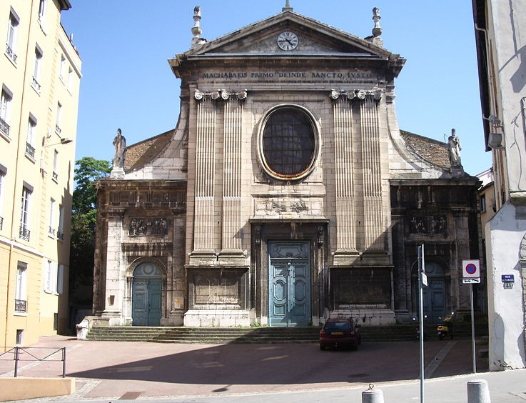 View of the Church Saint-Just of Lyon (France)